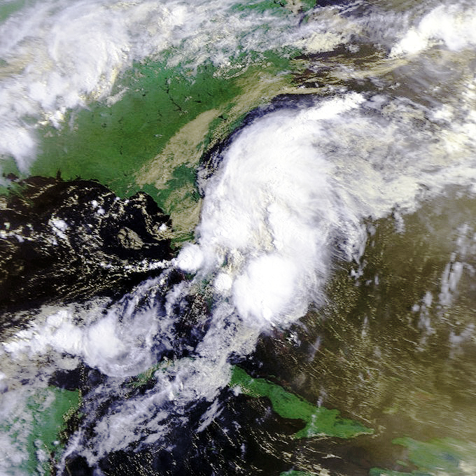 Tropical Depression One on June 26 at approximately 1311 UTC. This image was produced from data from NOAA-12, provided by NOAA.